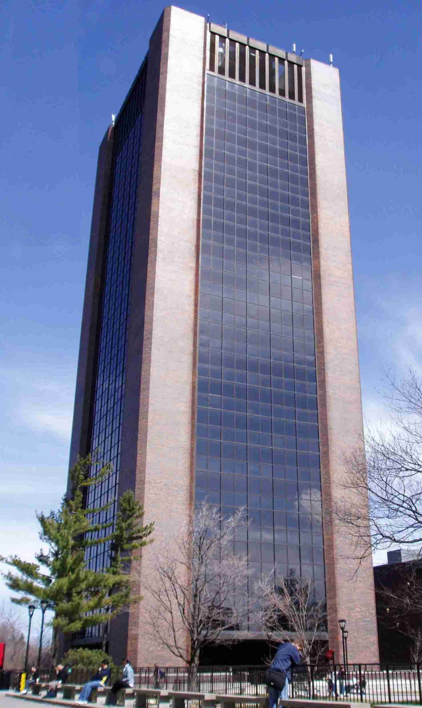 Dunton Tower at Carleton University from southeast